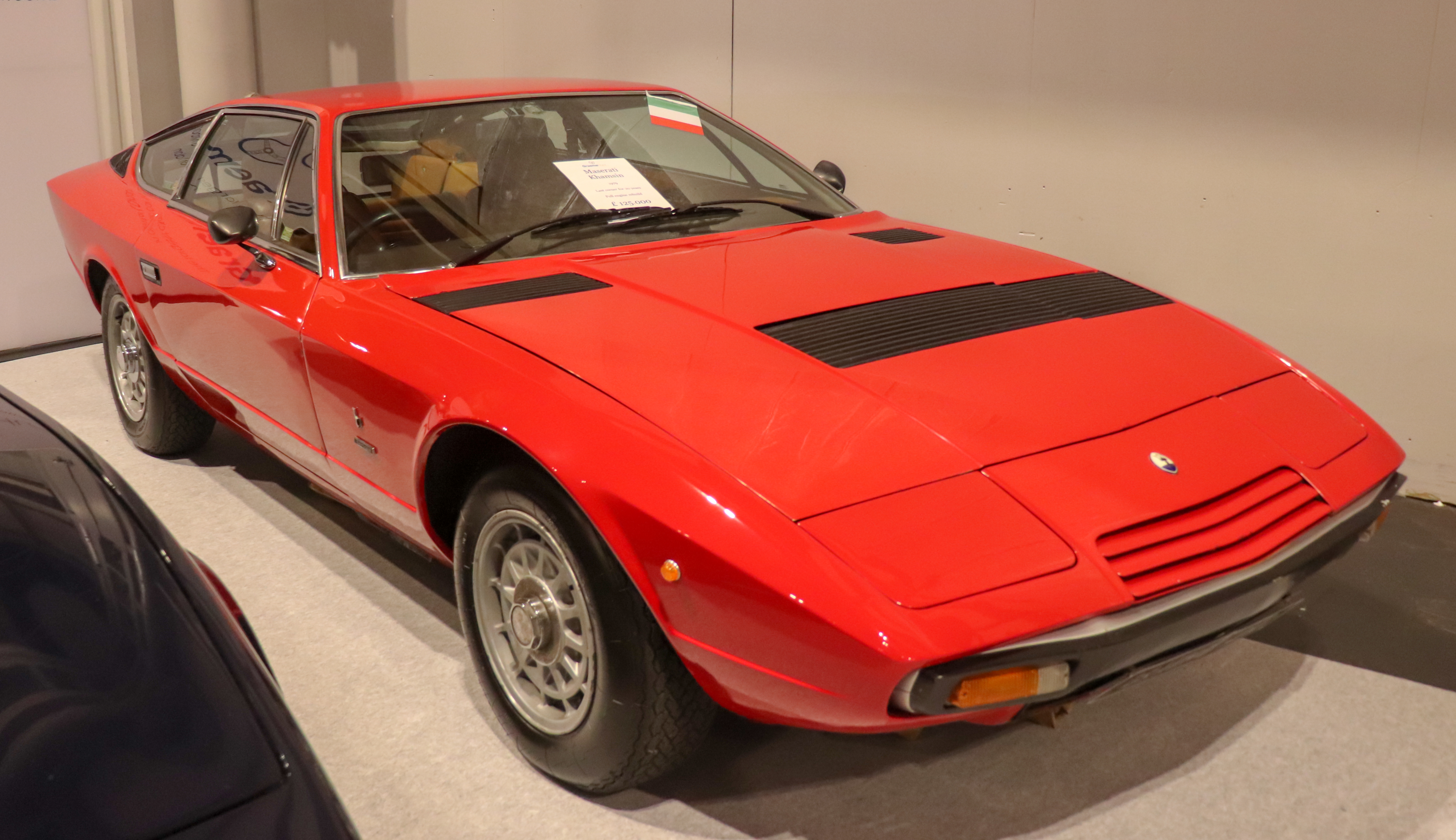 1979 Maserati Khamsin Taken at the NEC Classic Motor Show 2018